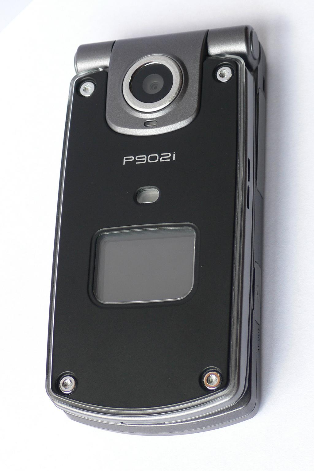 NTT DoCoMo FOMA P902i Black closed